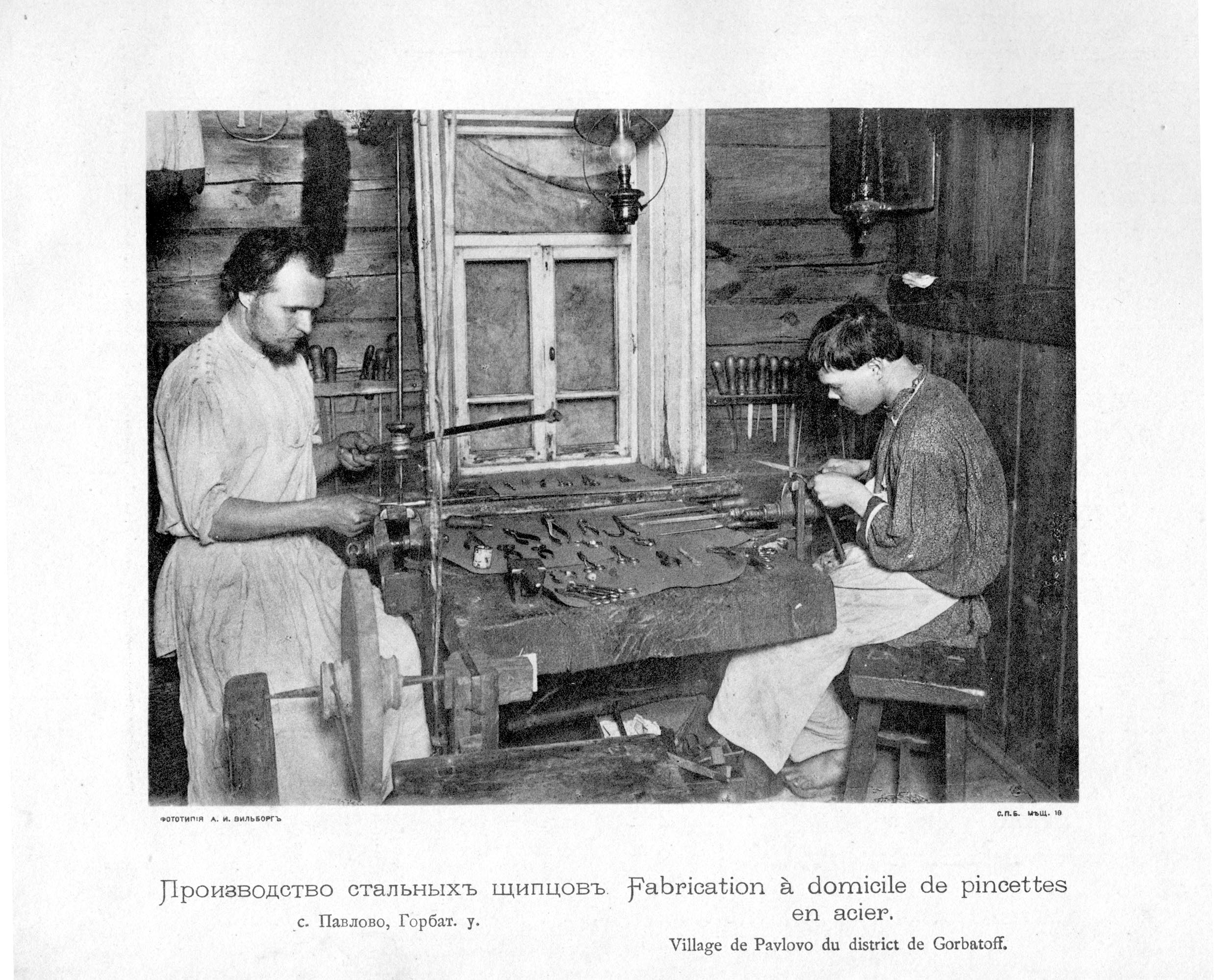 Handicraft Industry and Trades of Nizhegorodskaja gubernija. Pavlovo. XIX c.